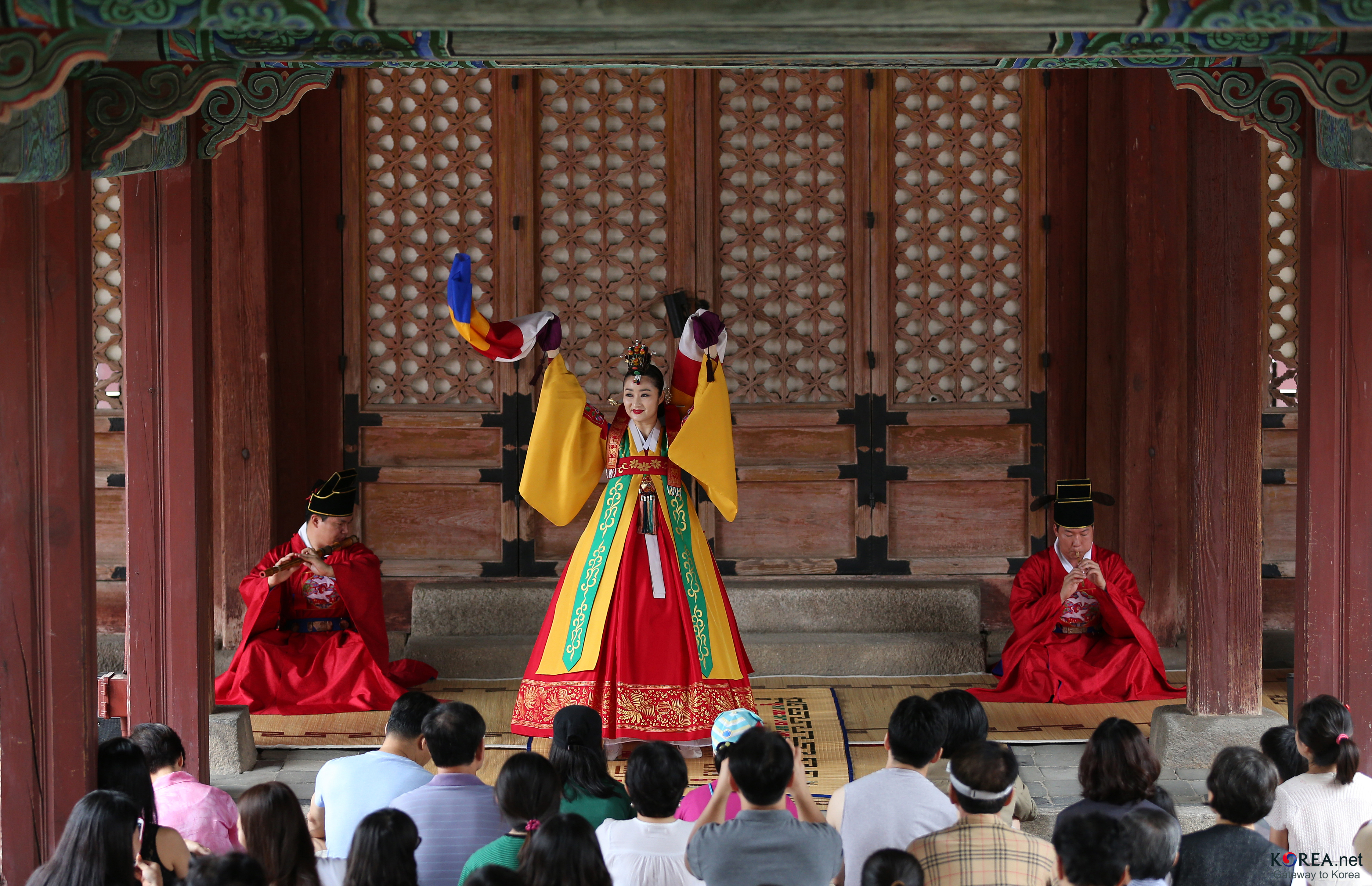 Morning of Changgyeonggung The annual early-morning gugak concert initiated by the National Gugak Center 2013.08.17. Changgyeonggung, Seoul -Related Articles- Early birds flock to palace on Saturday morning Ministry of Culture, Sports and Tourism Korean Culture and Information Service ( JEON HAN 이른 아침 고궁에서 국악에 빠지다 국립국악원 고궁 아침 국악 공연 ‘창경궁의 아침’ ‘이른 아침 고궁에서 국악에 빠지다’ 창경궁(昌慶宮), 서울 문화체육관광부 해외문화홍보원 코리아넷 전한